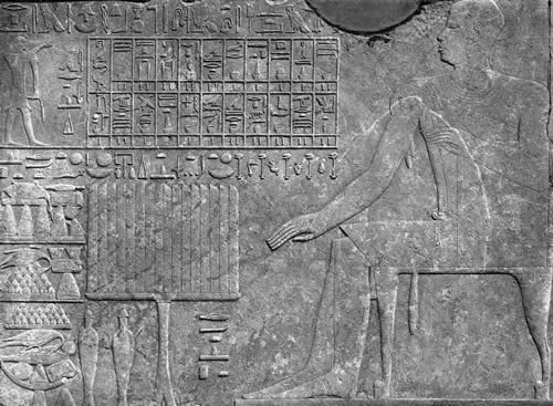 Ancient Egyptian relief, found in the mastaba of Siese in Dahshur; 12th Dynasty, around 1850 BC